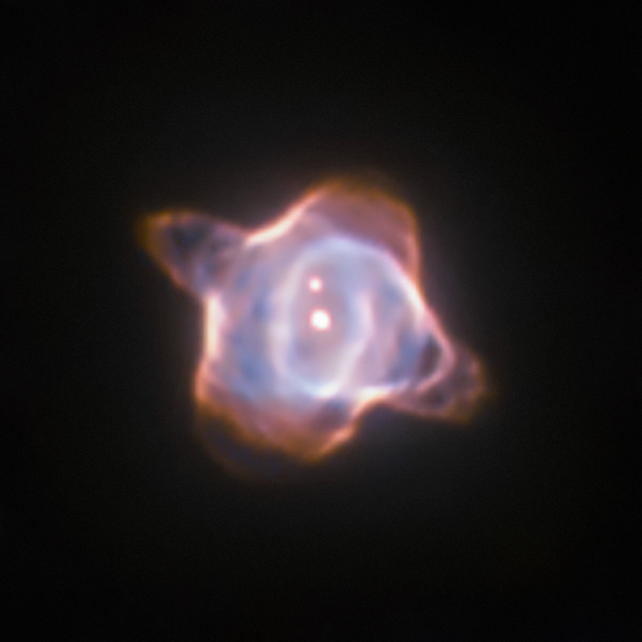 This image of the Stingray nebula, a planetary nebula 2700 light-years from Earth, was taken with the Wide Field and Planetary Camera 2 (WFPC2) in 1998. In the centre of the nebula the fast evolving star SAO 244567 is located. Observations made within the last 45 years showed that the surface temperature of the star increased by almost 40 000 degree Celsius. Now new observations of the spectra of the star have revealed that SAO 244567 has started to cool again.